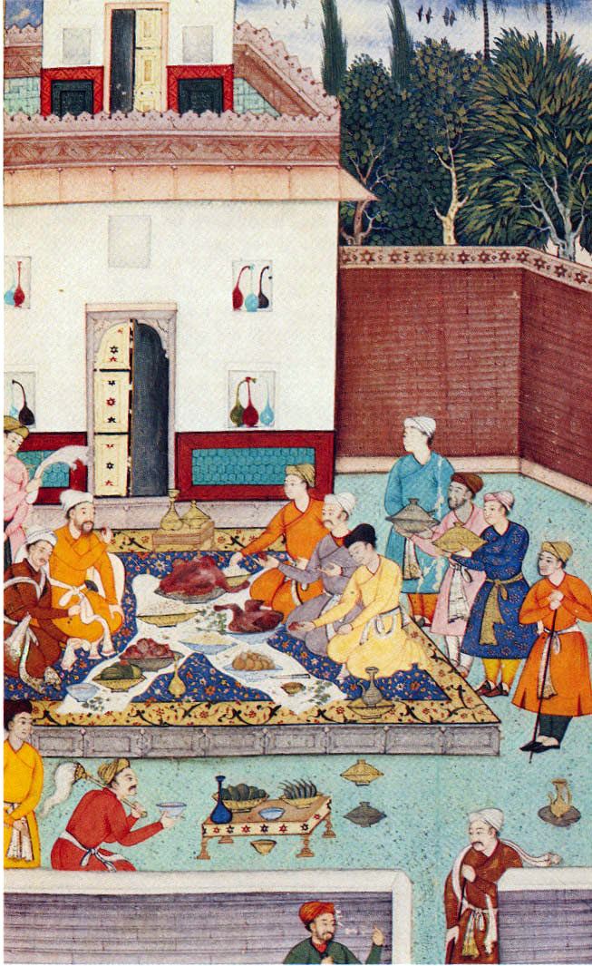 A banquet for Babur, 1507; in a painting from c.1590 Source: "Gulbadan: Portrait of a Rose Princess at the Mughal Court," by Rumer Godden (New York: The Viking Press, 1980), p. 57; scan by FWP, Sept. 2001 "Miniature from the British Library Babur-nama, c.1590 (Or. 3714, f. 260b). A banquet including roast goose given for Babur by the Mirzas in 1507." (Gulbadan, p. 15)